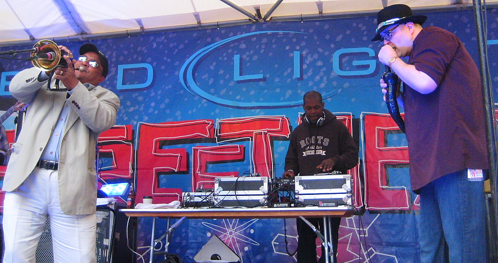 The John Popper Project performing a Free Concert in Vail, CO Photo Mountain Weekly News - Mike Hardaker.jpg